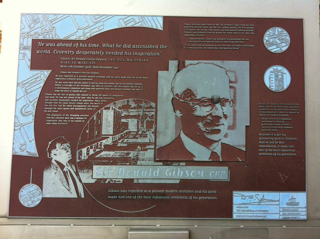 Sir Donald Gibson, Coventry's City Architect sign, prominently and proudly displayed publicly in Coventry City Centre, (NOT temporary exhibit!). As originally uploaded with full permission of the Herbert Museum and Art Gallery #GLAMHerbert event on 1 October 2011.